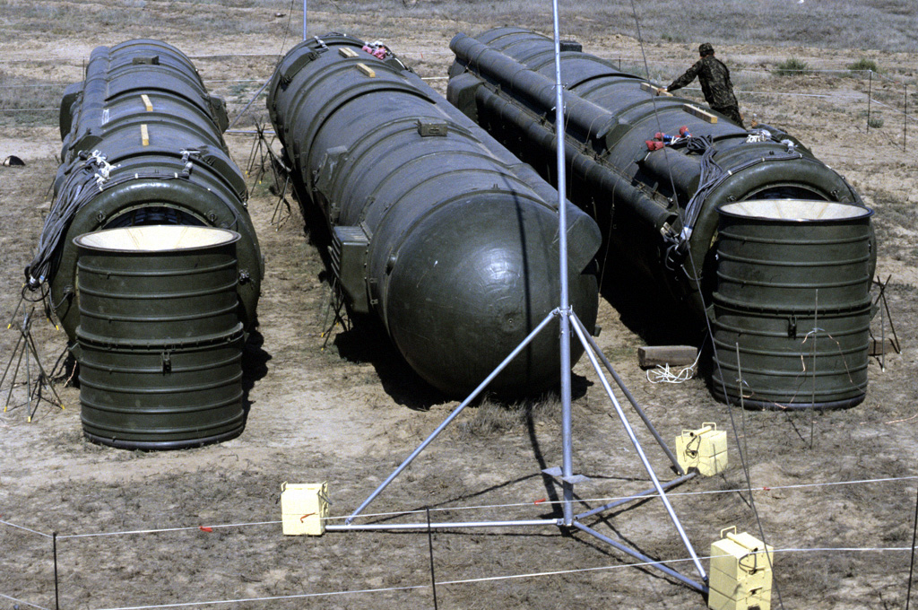 “Bundled RSD-10 missiles prepared for demolition”. A bundle of three Soviet RSD-10 missiles prepared for demolition at the Kapustin Yar launch site.